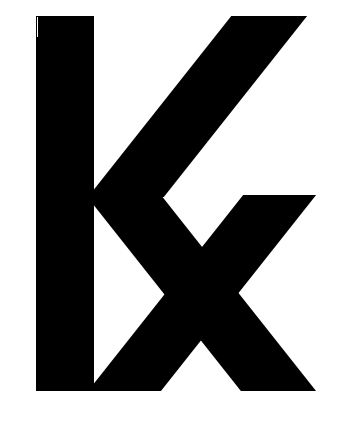 Capital letter K with a rising diagonal stroke from the bottom left to the right midpoint of the letter K, to form a small, nested letter 'x'.